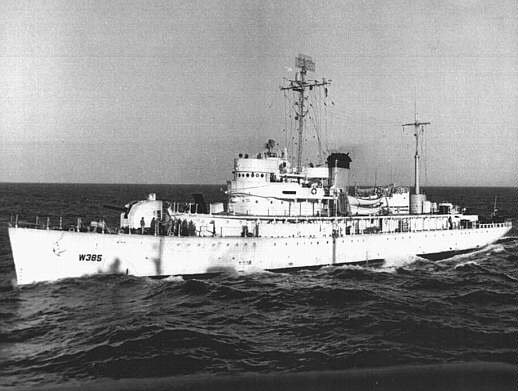 United States Coast Guard Cutter USCGC Dexter (WAVP-385), previously WACG-18, later WHEC-385